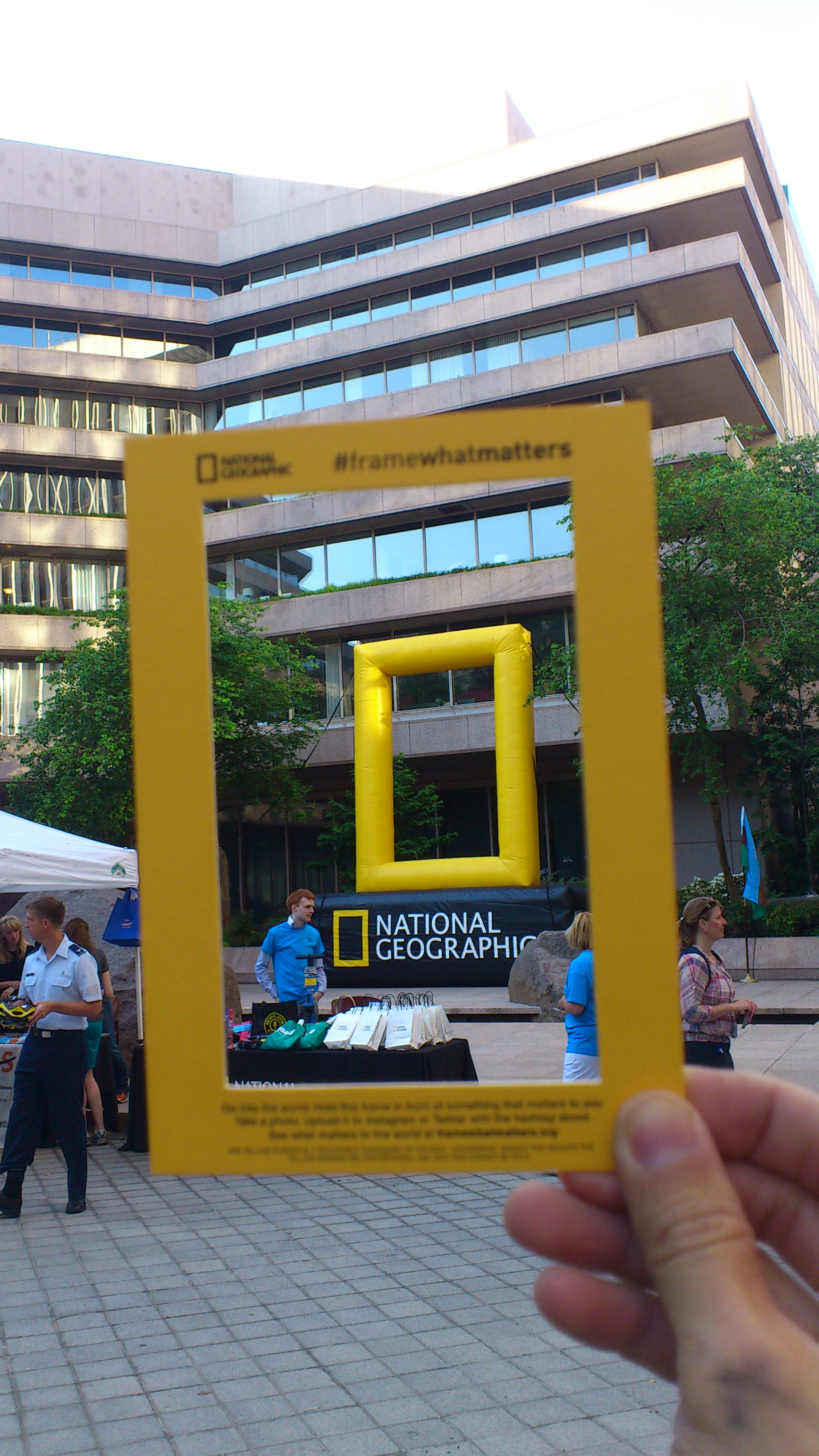 Bike to Work Day with WABA and National Geographic